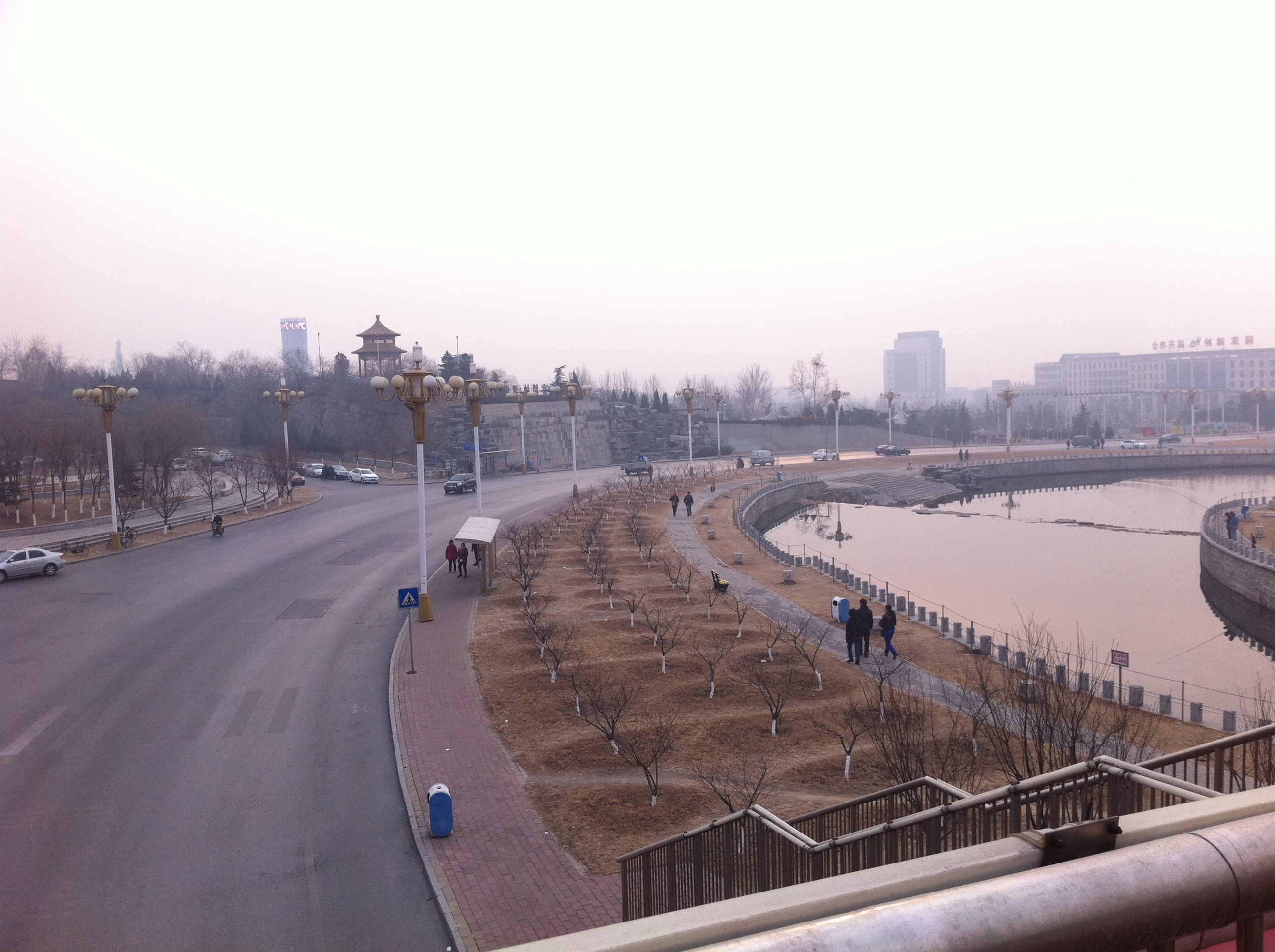 Yanshan Petrochemical Plant takes up a massive part of Fangshan district.